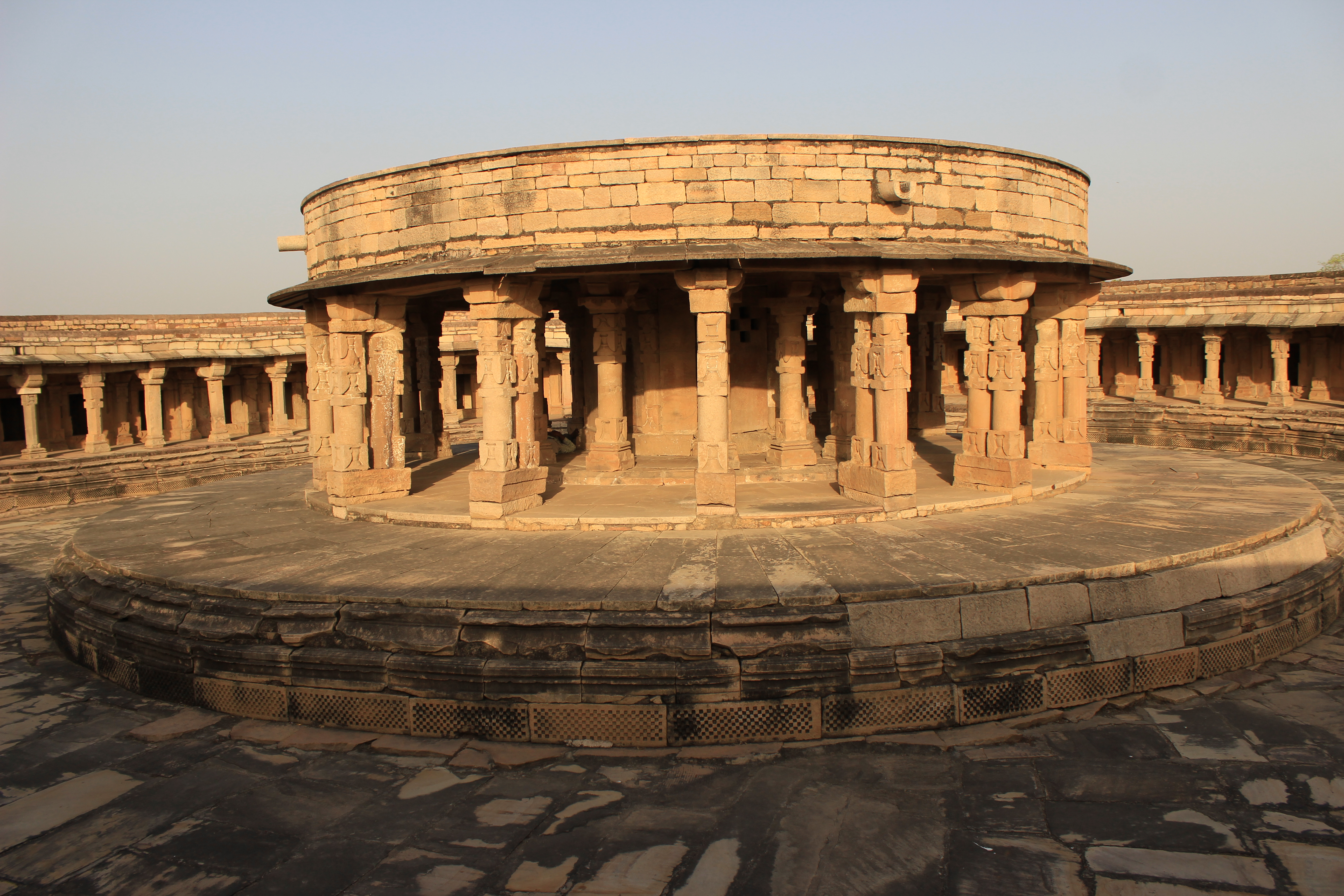 Sanctorum is still relatively intact